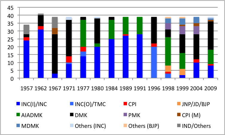 Made a stacked bar graph of all lok sabha elections in TN from 1957-2011. Also, Others (INC) represents other parties supporting INC or INC(I) as part of pre-poll alliance and Others (BJP) represents other parties supporting BJP as part of pre-poll alliance.